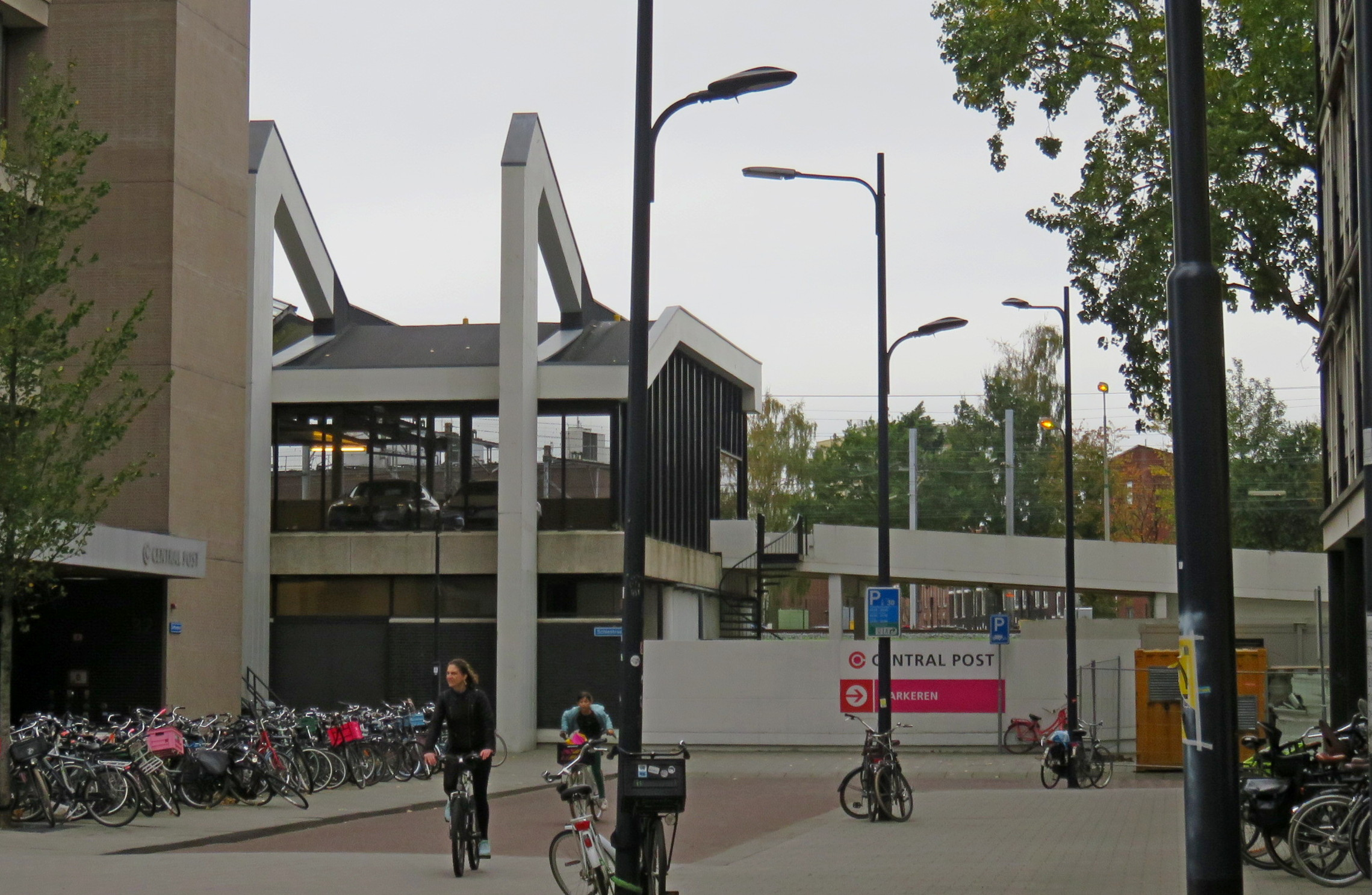 Stationspostgebouw in Rotterdam (NL) on Delftseplein 31. National monument